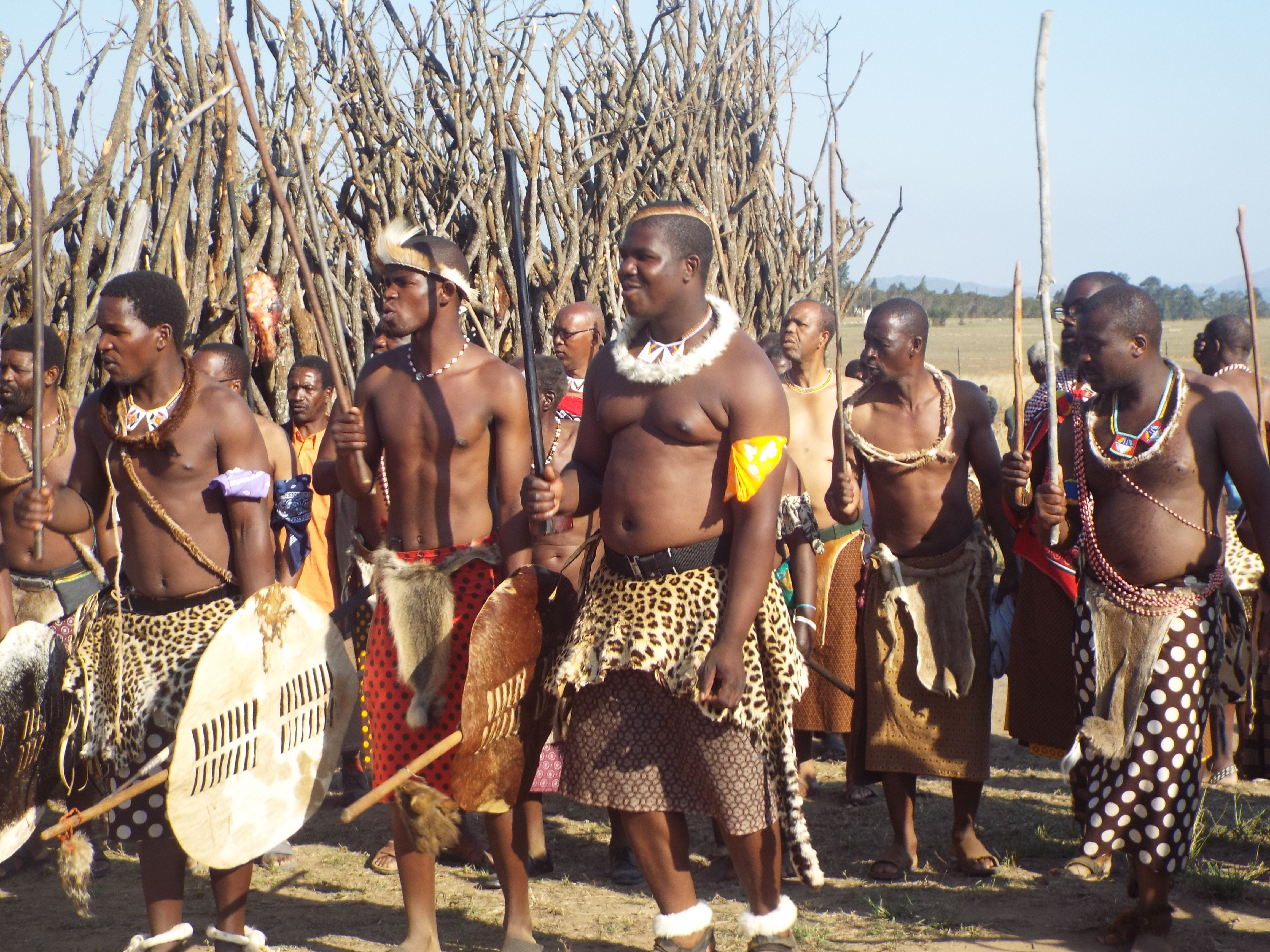 Swazi men going in to the royal kraal after Sibhimbi ceremony. This is an image from Swaziland